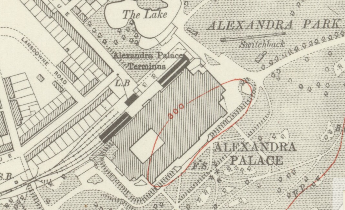 Alexandra Palace station in north London on a 1920 Ordnance Survey map.